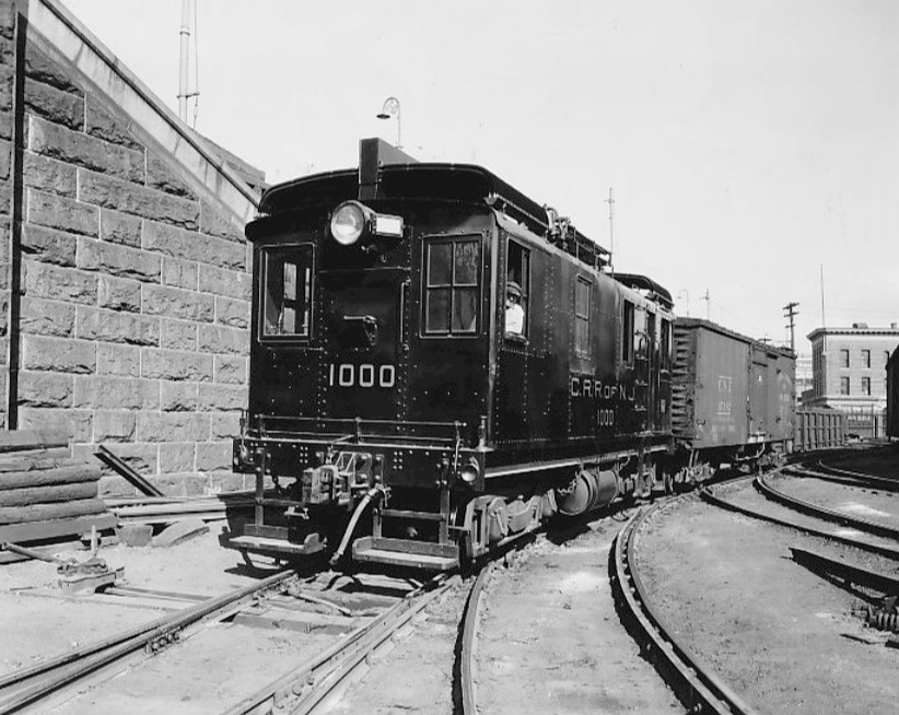 Photo of Central of New Jersey's American Locomotive Company diesel-electric locomotive. These were built as a partnership between American Locomotive, General Electric and Ingersoll-Rand between 1928 and 1929. The locomotive pictured was retiring after 30 years service in 1957. The locomotive went to the Baltimore & Ohio Museum in Baltimore after it was retired. The locomotive was originally purchased by the Baltimore & Ohio.